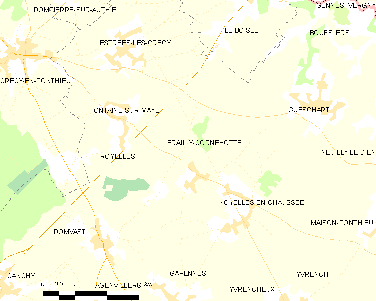 Map of French municipality Brailly-Cornehotte